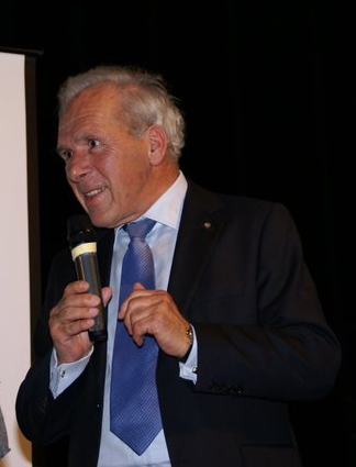 Harry van Raaij giving a speech during the annual Ut Pèèrd award ceremony in Sint Anthonis